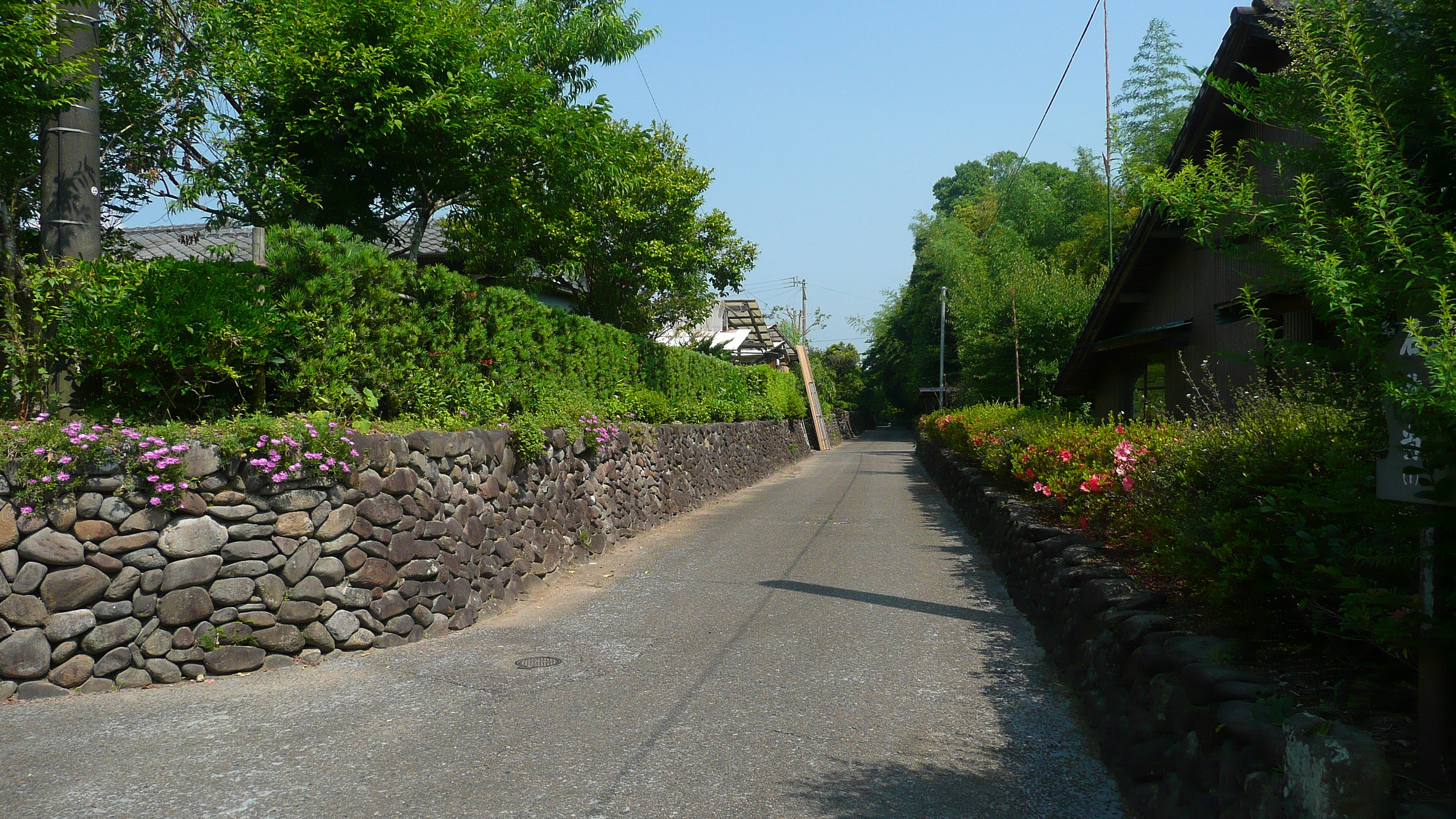 Iriki Humoto (Satsumasendai City, Kagoshima Prefecture, Japan)